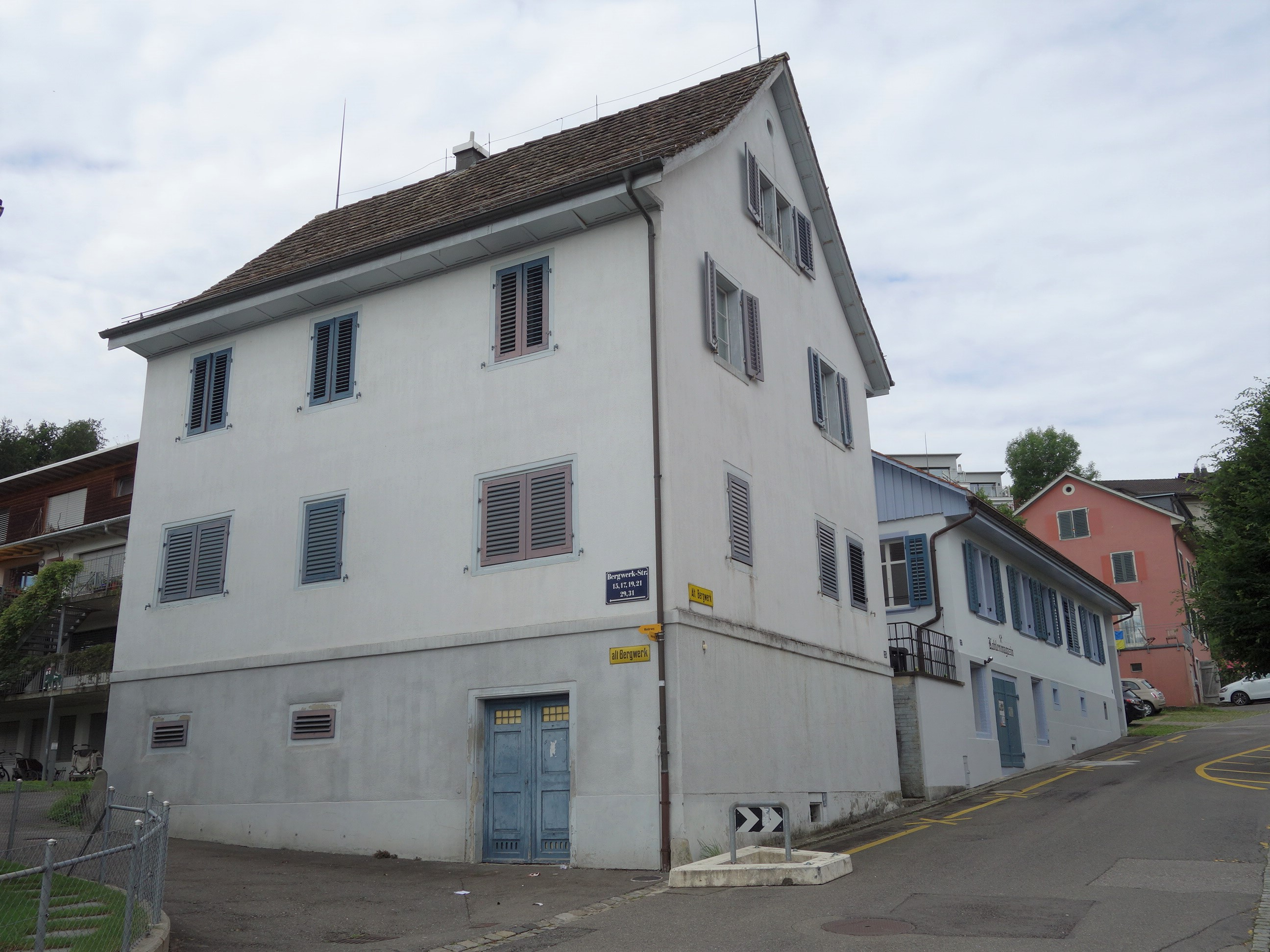 Old mine house with coal depot in Horgen ZH, Switzerland